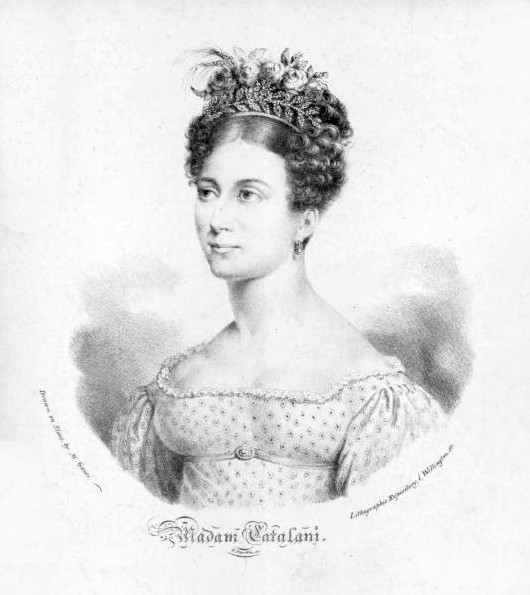 Portrait of Angelica Catalani (1780-1849), Italian opera singer